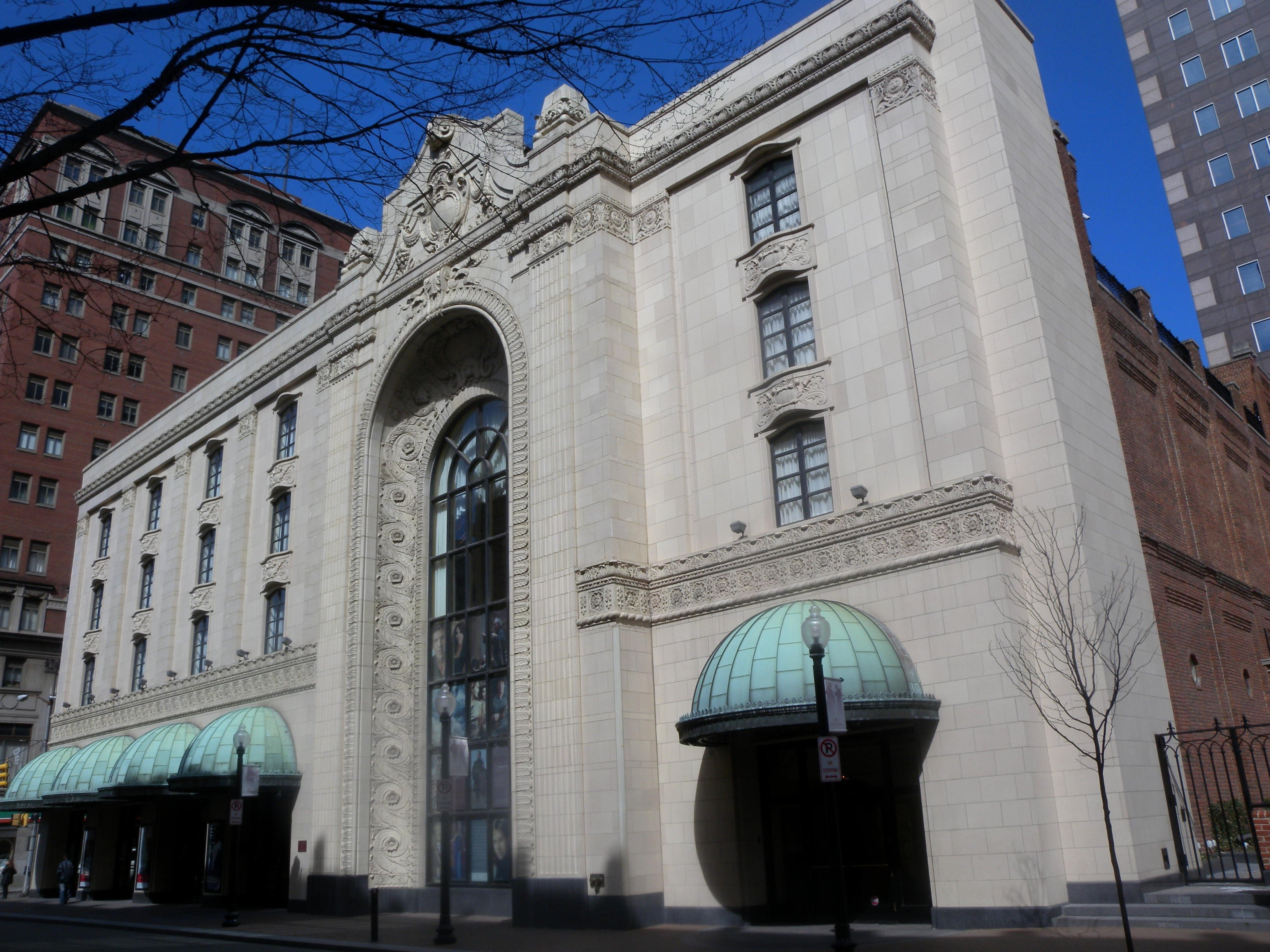 Looking north at Heinz Hall on a sunny early afternoon.